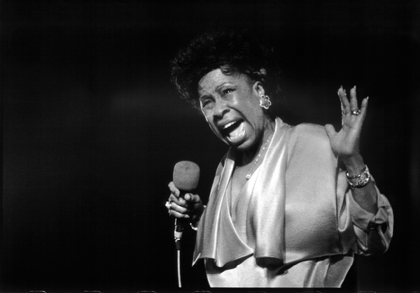 Jazz singer Betty Carter, Lucerna Hall, Prague, 25 october 1986